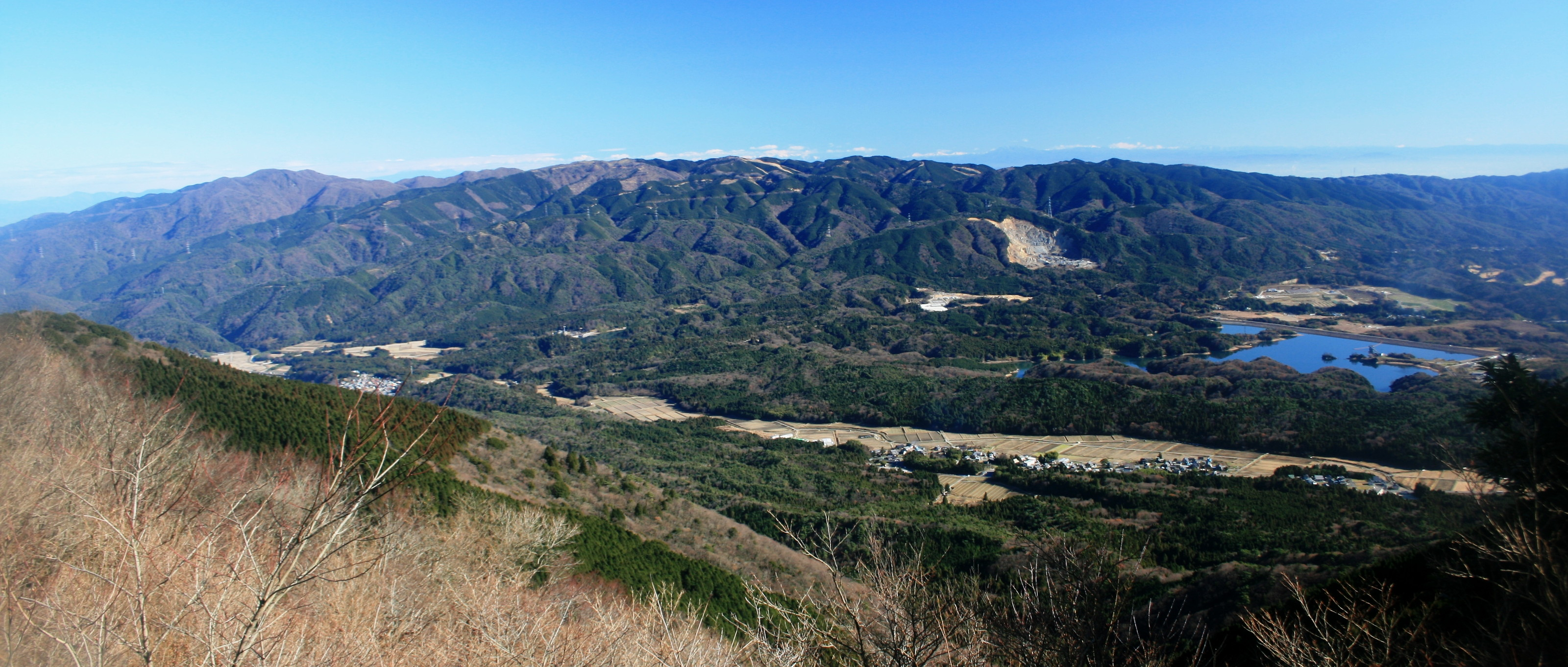 Yoro Mountains from Mount Kuruson